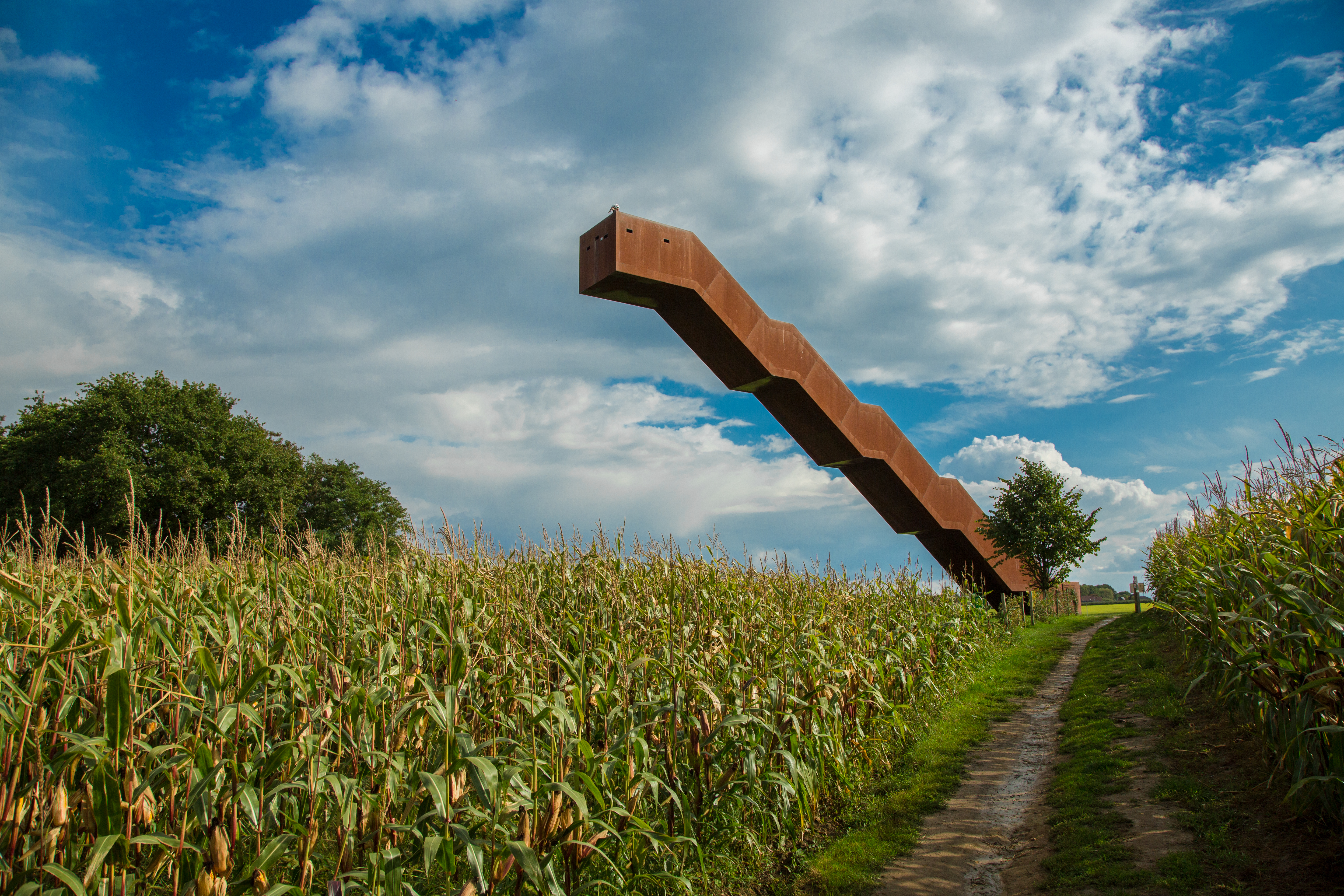 De Vlooybergtoren in Tielt-Winge.